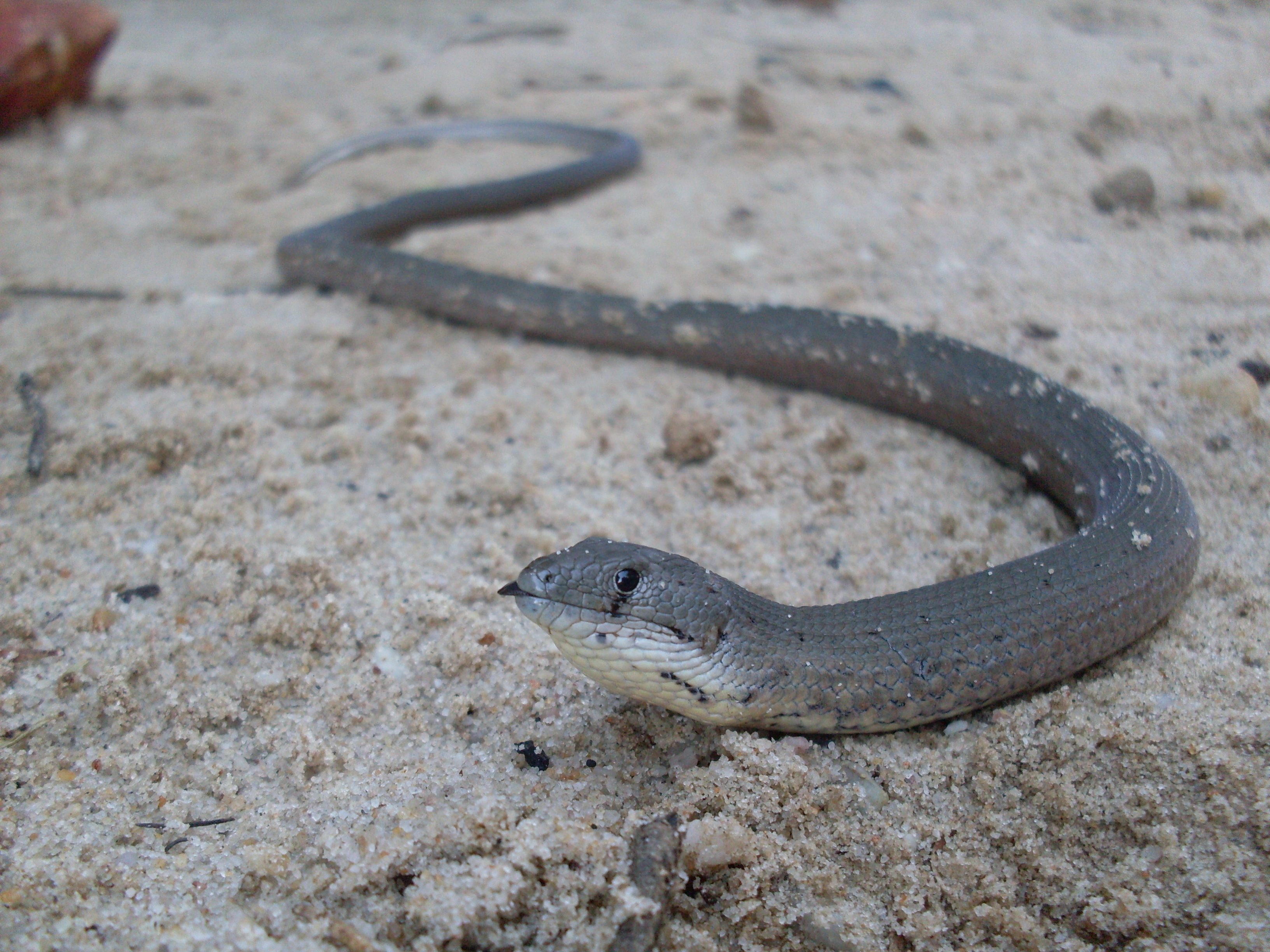 Common Scaly-Foot (Pygopus lepidopodus), not so common any more. Royal National Park, NSW Australia, April 2010.